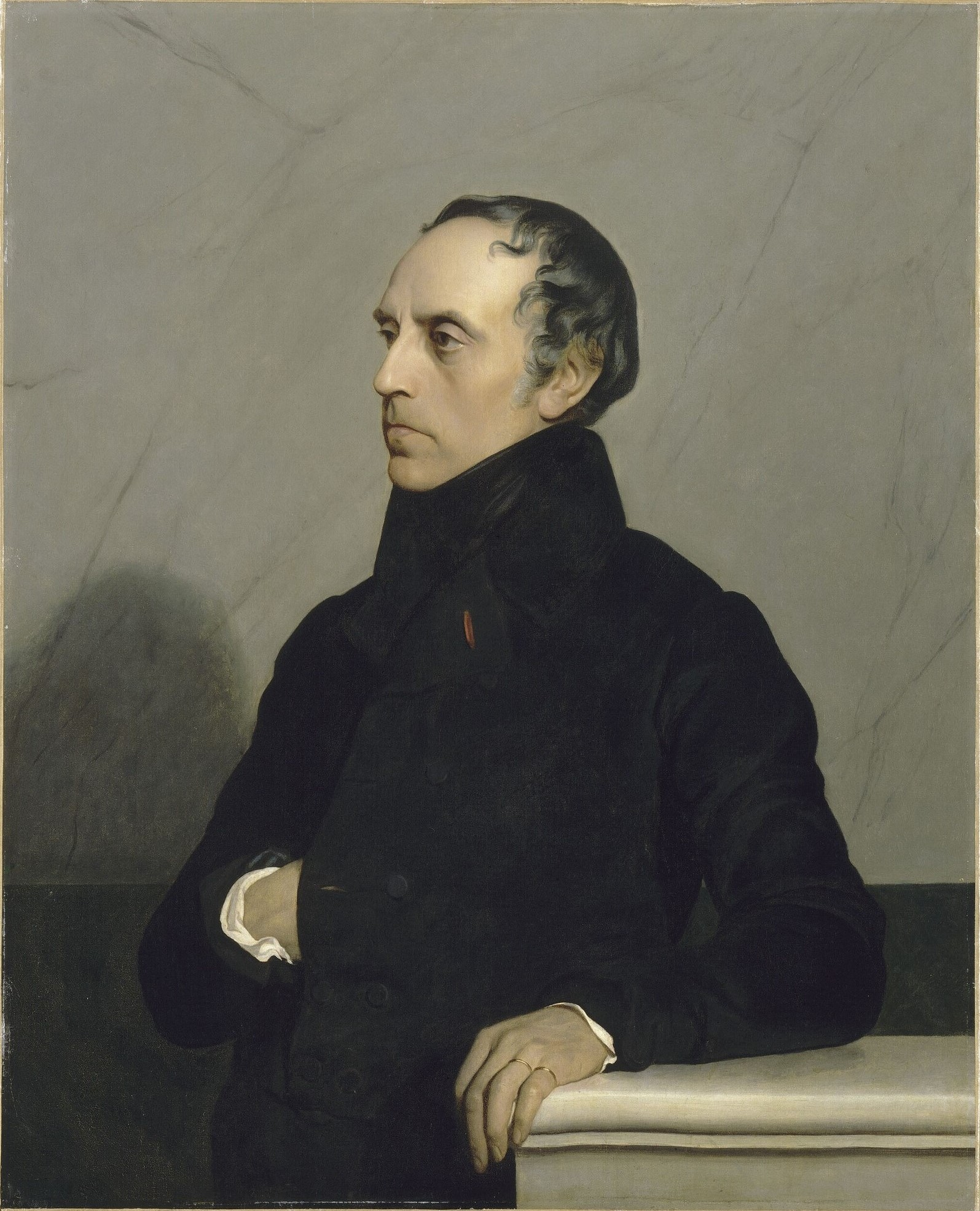 François Guizot (1787-1874), french statesman